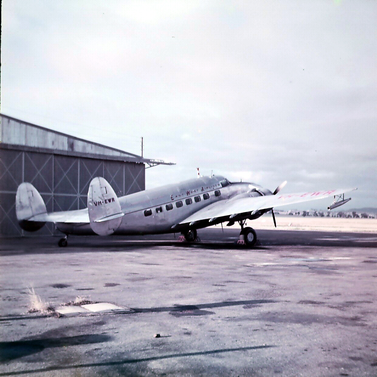 East-West Airlines Lockheed Hudson VH-EWR used for cloud seeding experiments by the CSIRO from Wagga aerodrome in 1958